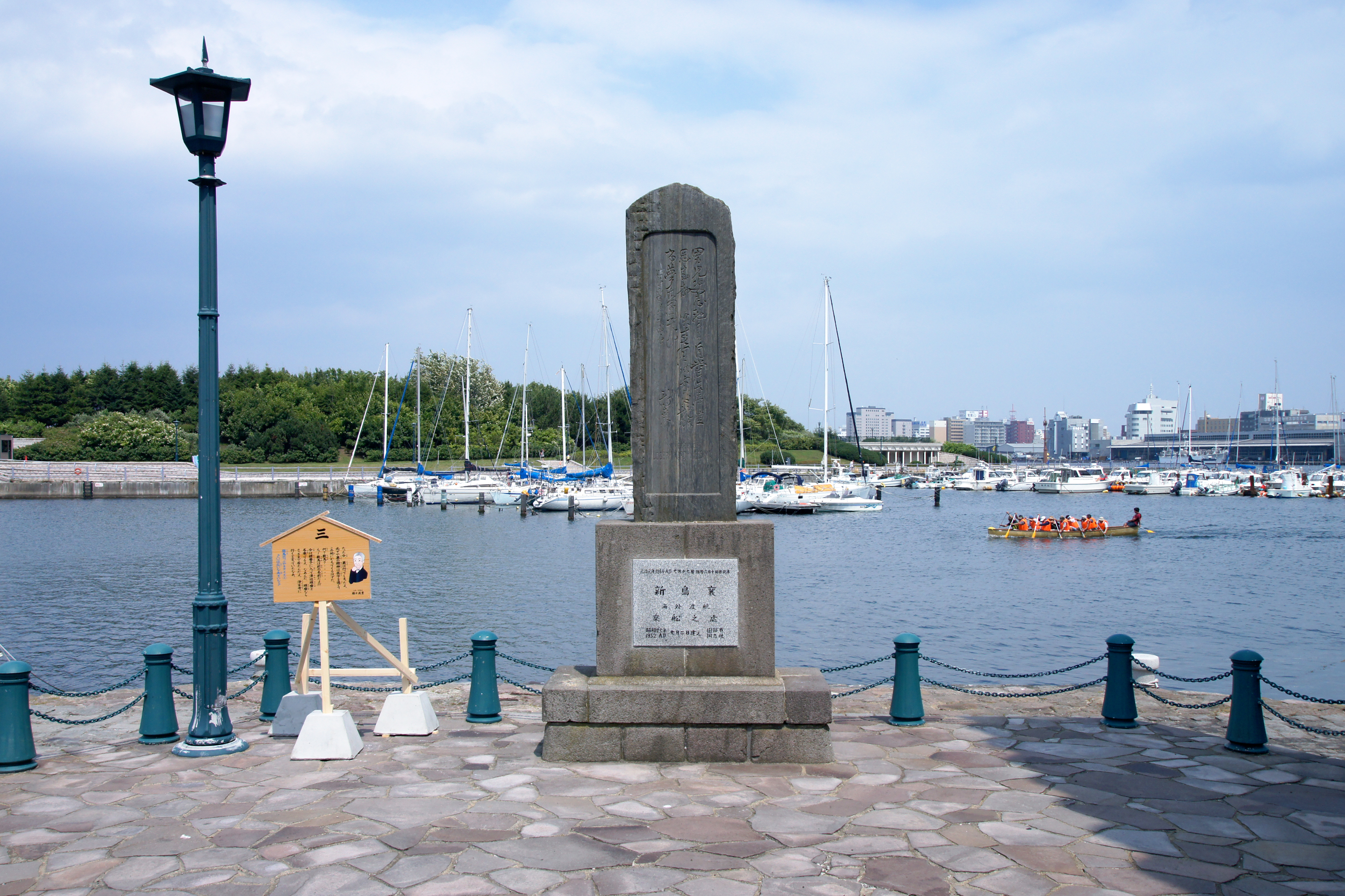 In Memory Of Joseph Hardy Neesima 1843-1890 Founder of Doshisha University